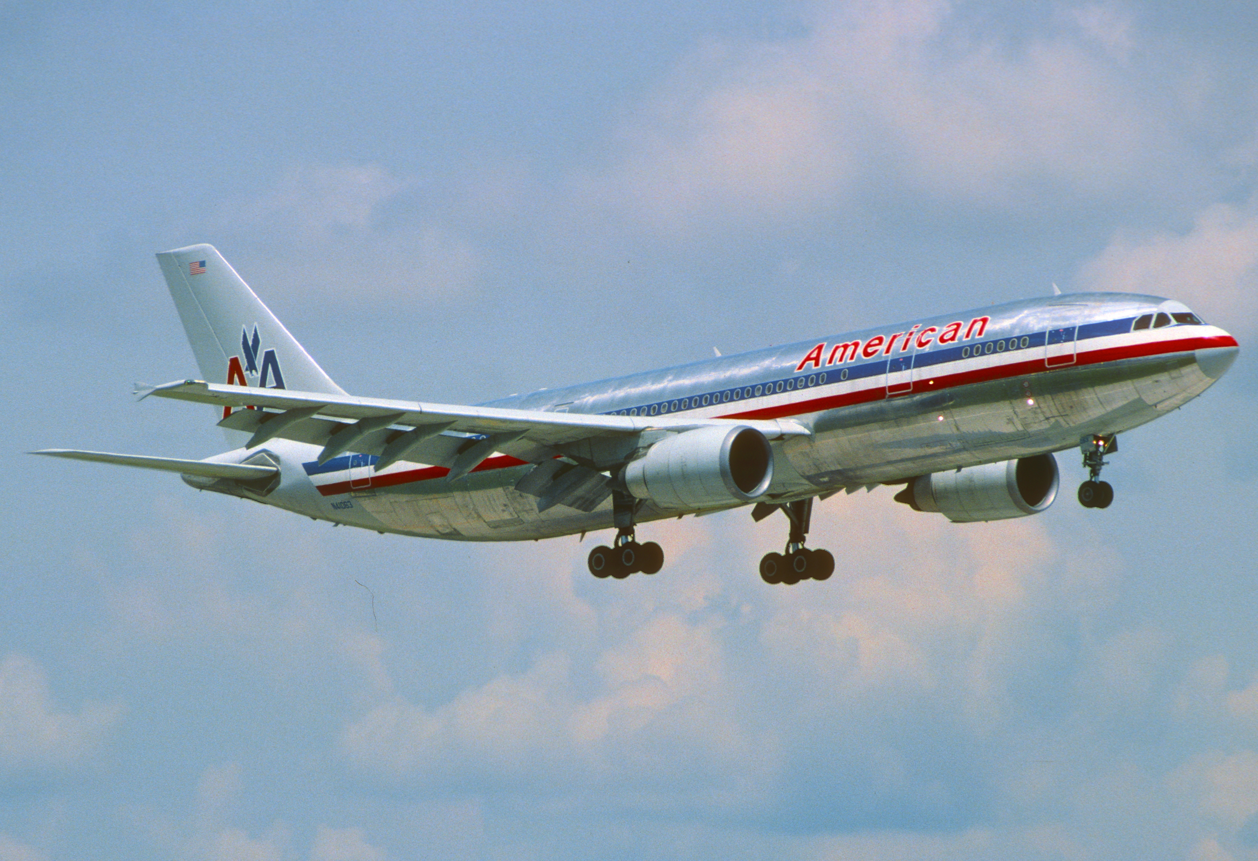 375fq - American Airlines Airbus A300-605R; N41063@MIA;01.09.2005